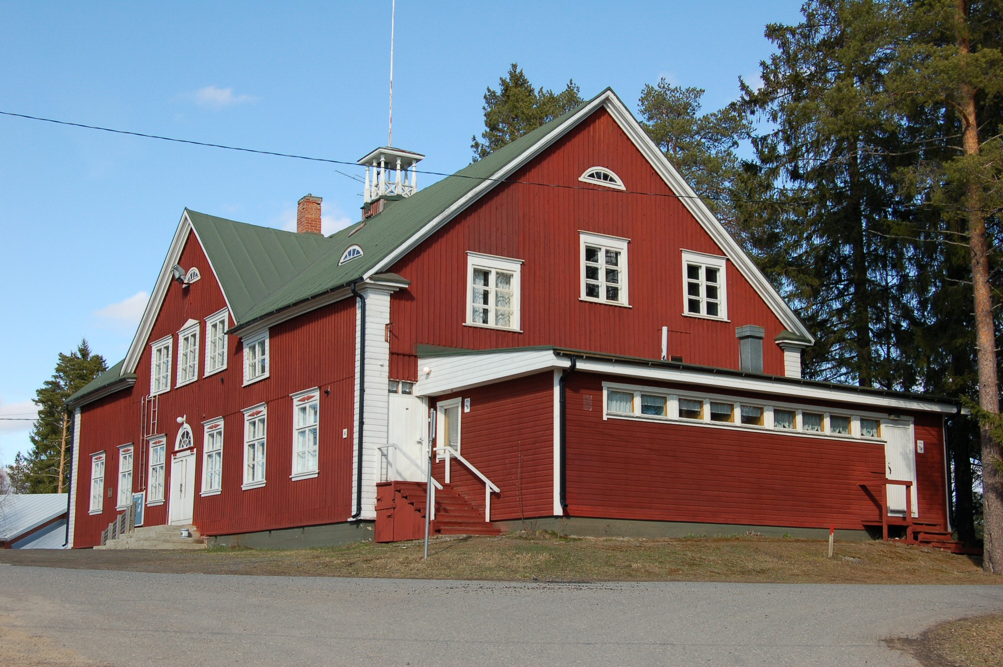 Vesaisenlinna (literally Vesainen Castle) in Ylikiiminki, Finland.